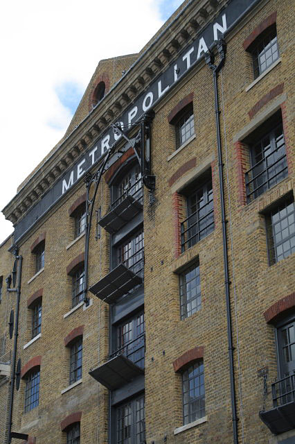 Metropolitan Wharf (detail) One of the most impressive riverside warehouses at Wapping.